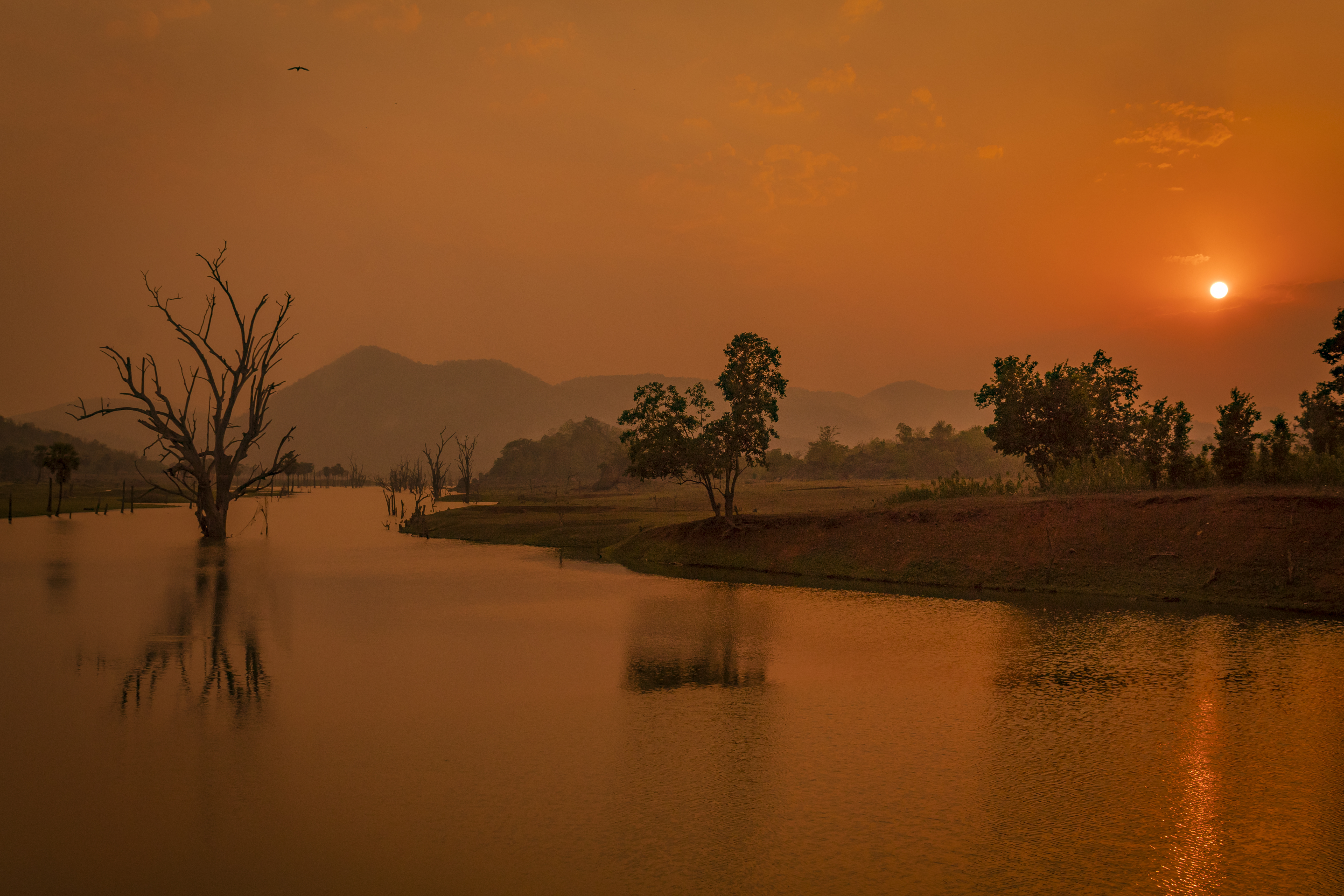 Bhupatipalem reservoir in Rampachodavaram, East Godavarai district